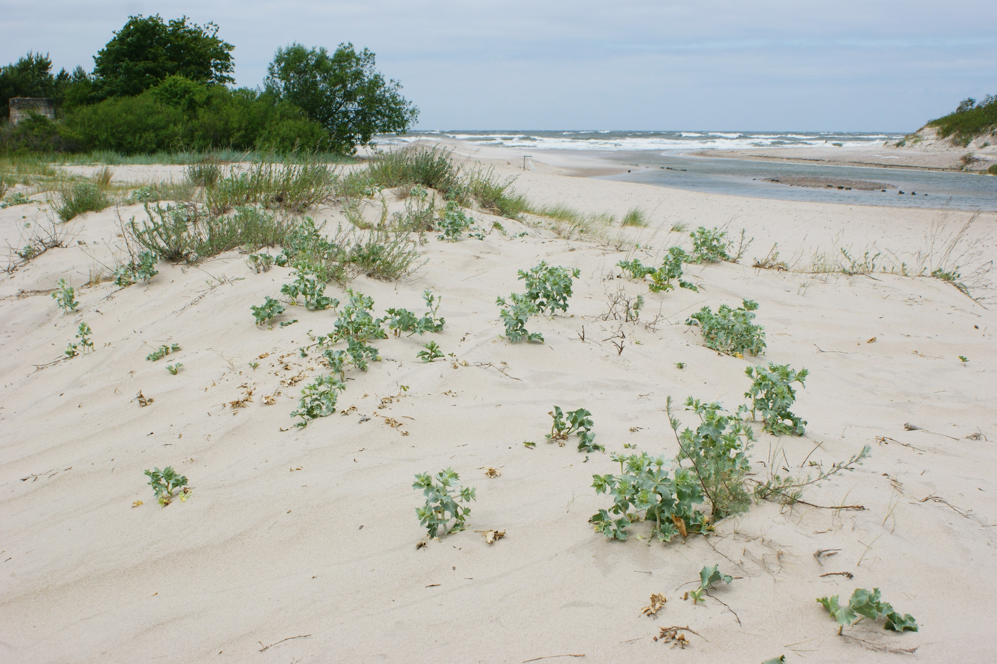 Eryngium maritimum in Mielno on the Baltic See (Poland)